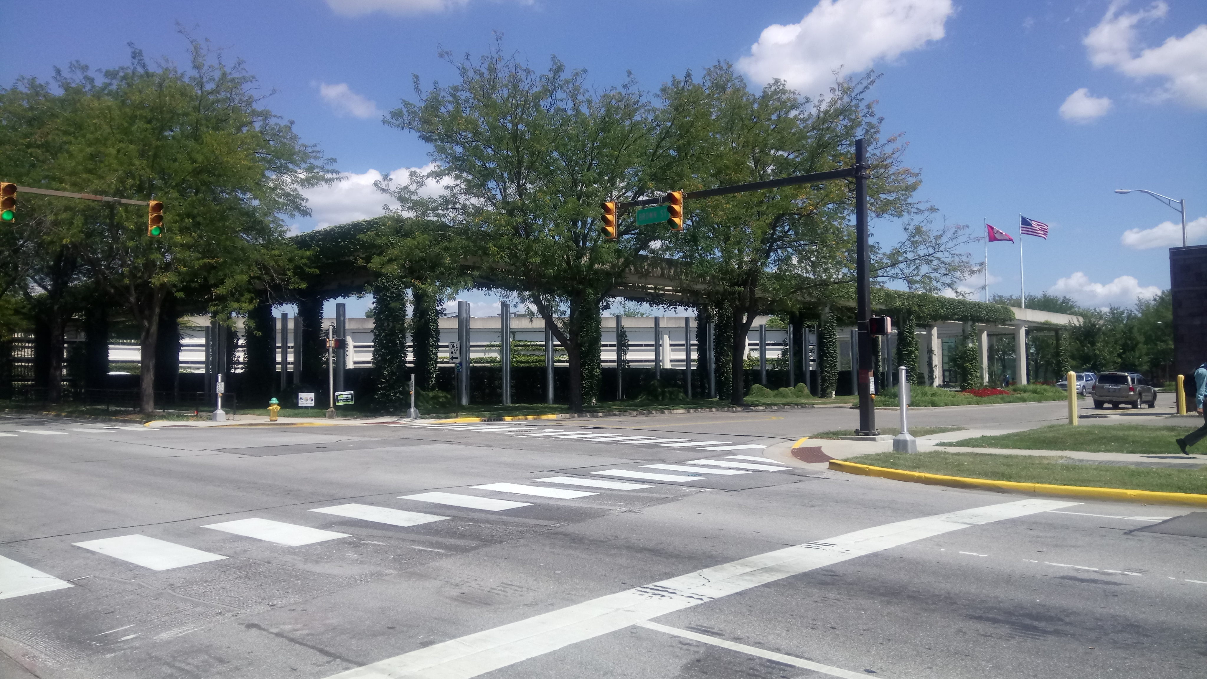 CumminsHQ